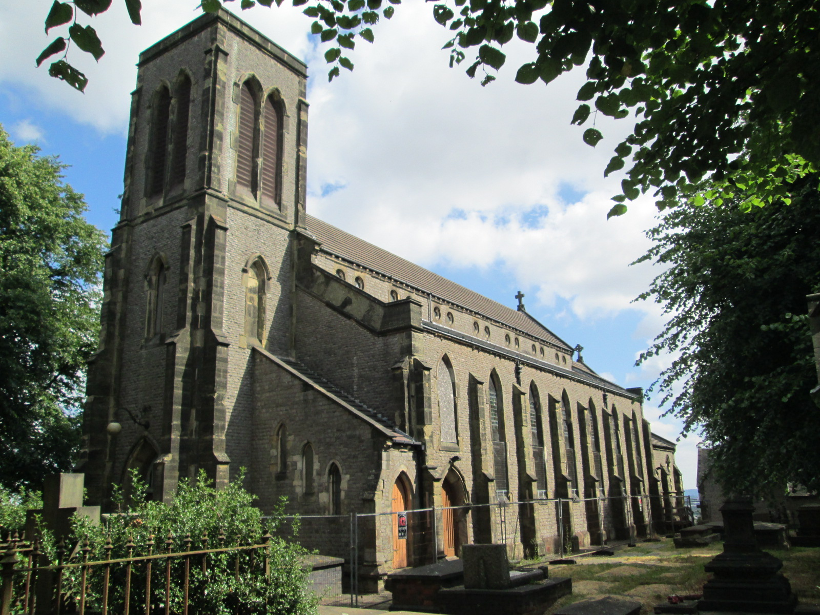 St John's Church, in Kates Hill, Dudley, West Midlands. Viewed from the south-west.